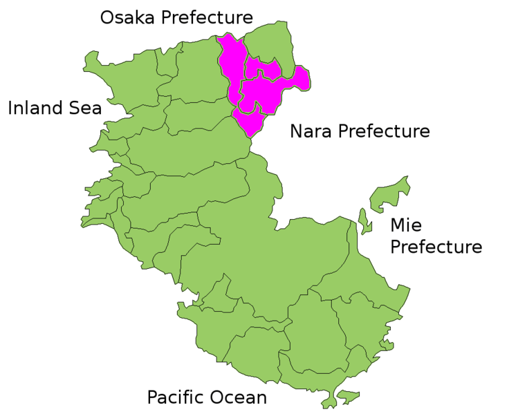 Map of Ito District, Wakayama Prefecture, Japan Author Krisgrotius Own work